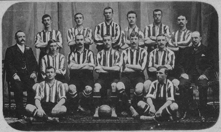 The Southampton FC team that played a friendly match vs. local team Alumni FC in Buenos Aires, Argentina.